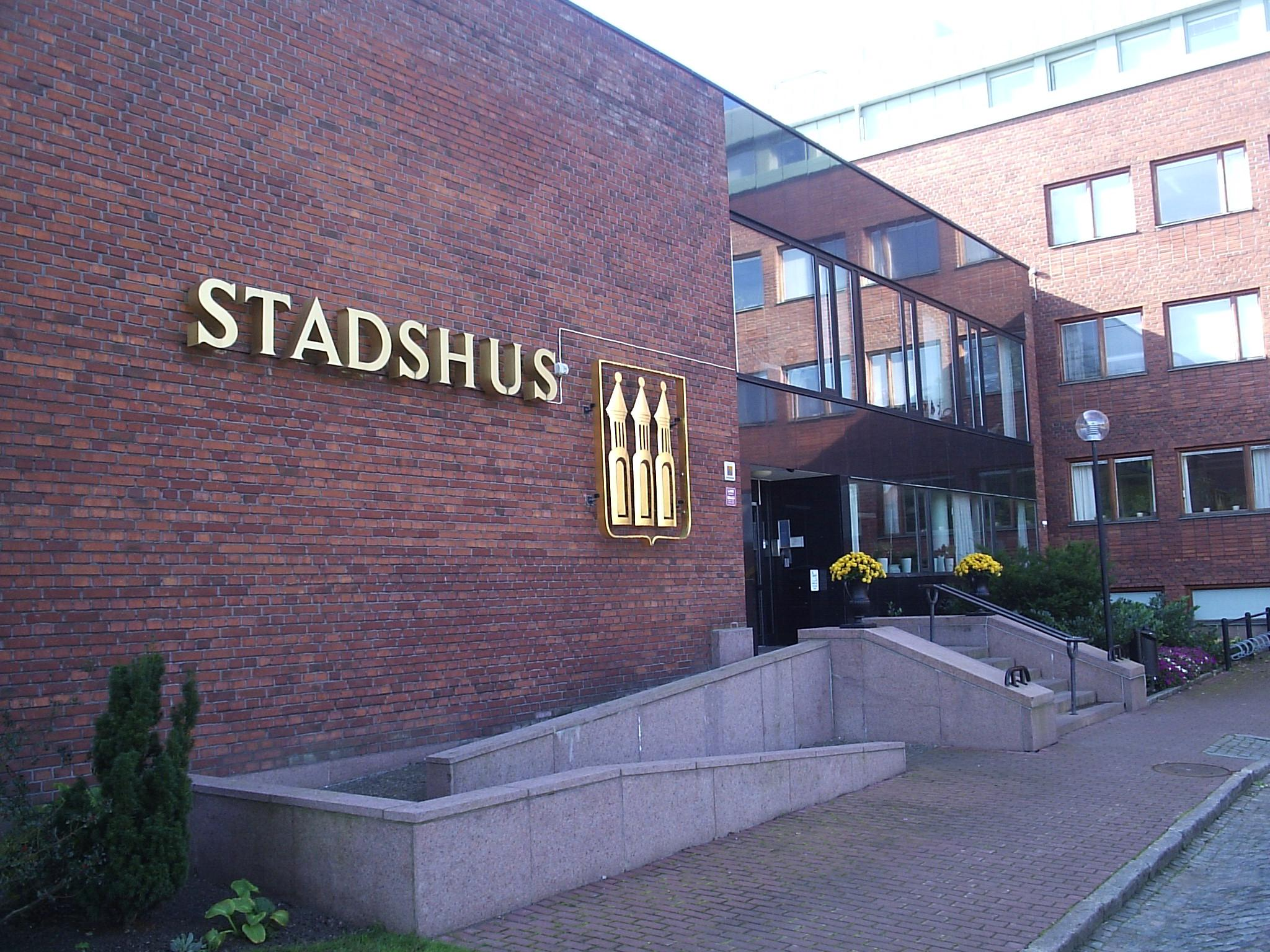 Photo by Harri Blomberg.